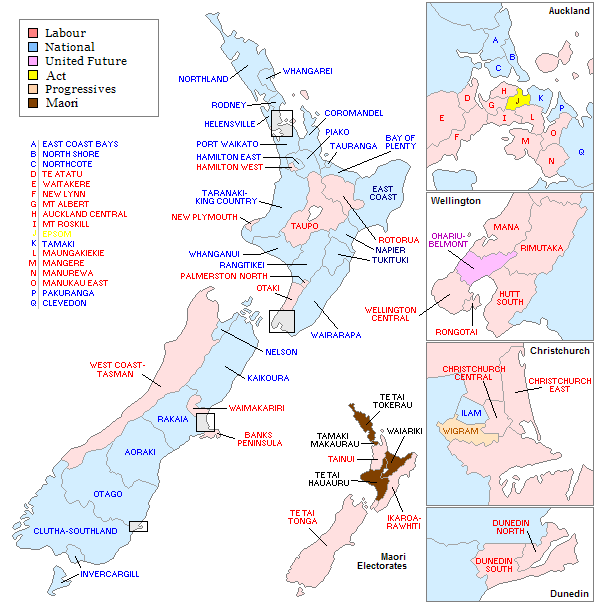 Election map depicting the electorate results of the New Zealand general election, 2005. Colours denote the party affiliation of the winning electorate candidates.